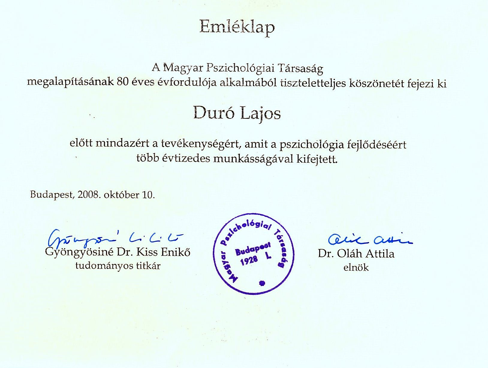 Memorial leaf of Lajos Duró from Hungarian Psychological Association